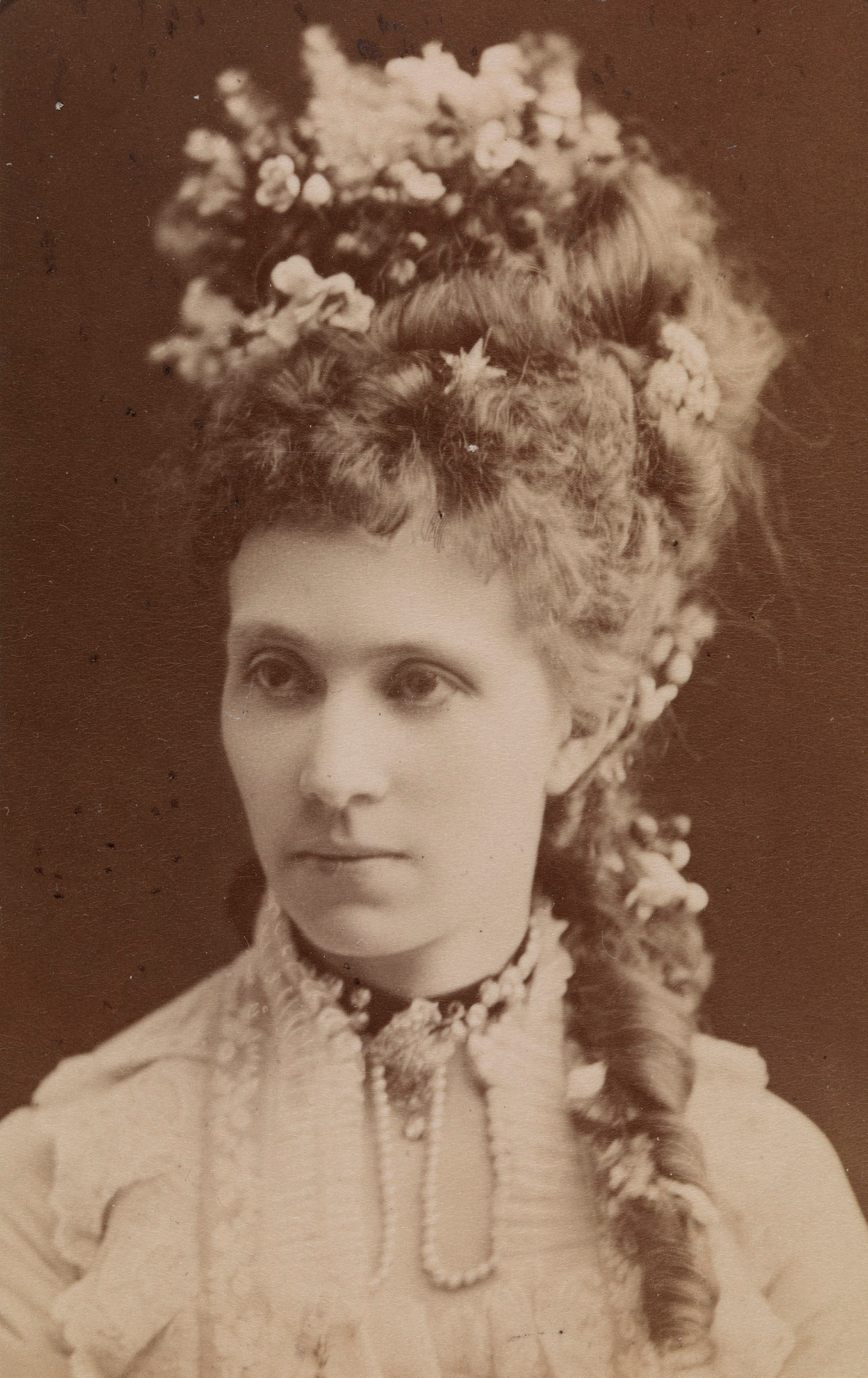 Princess Maria das Neves of Bourbon, 1877